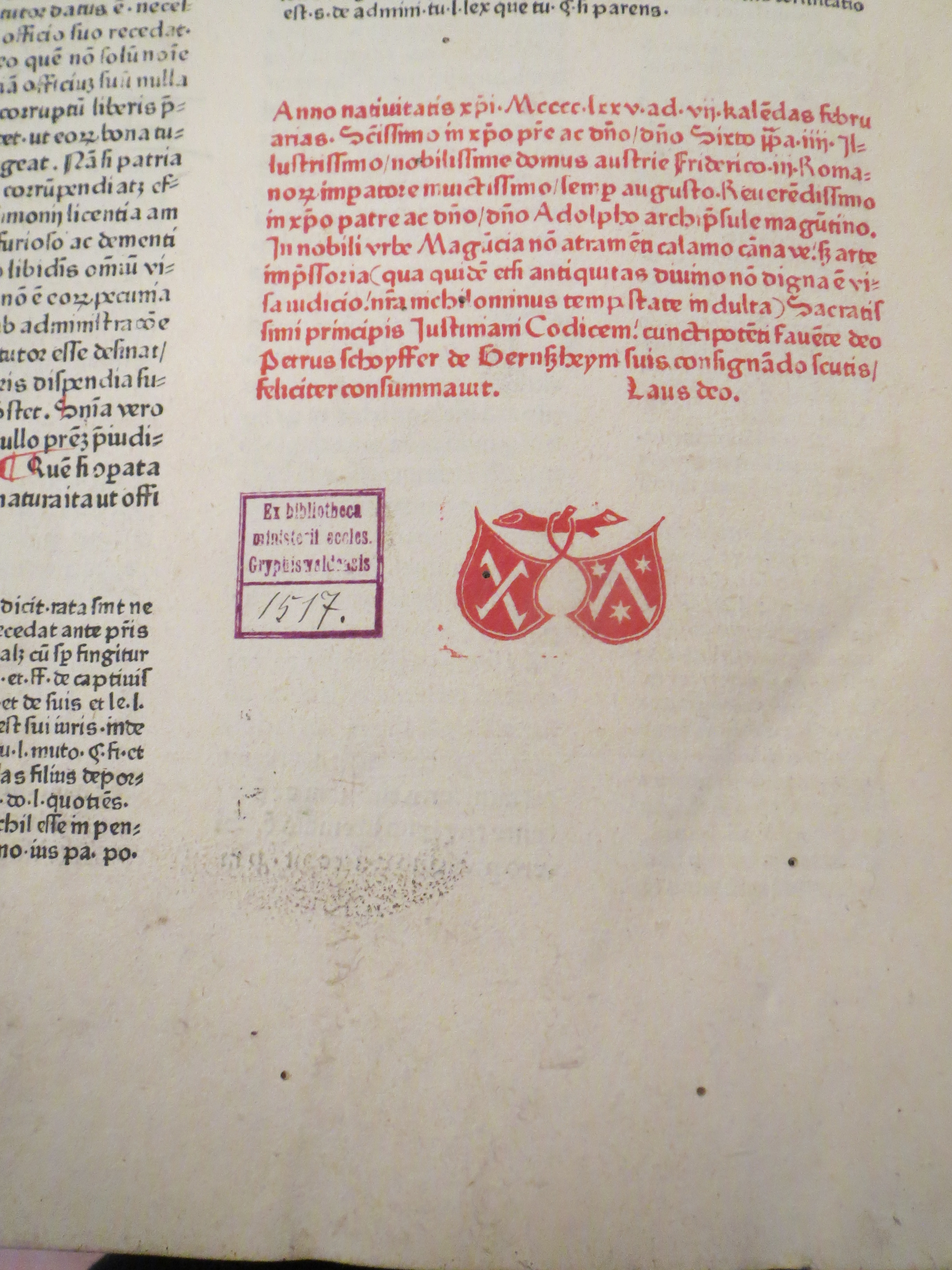 Ministerial Library Greifswald